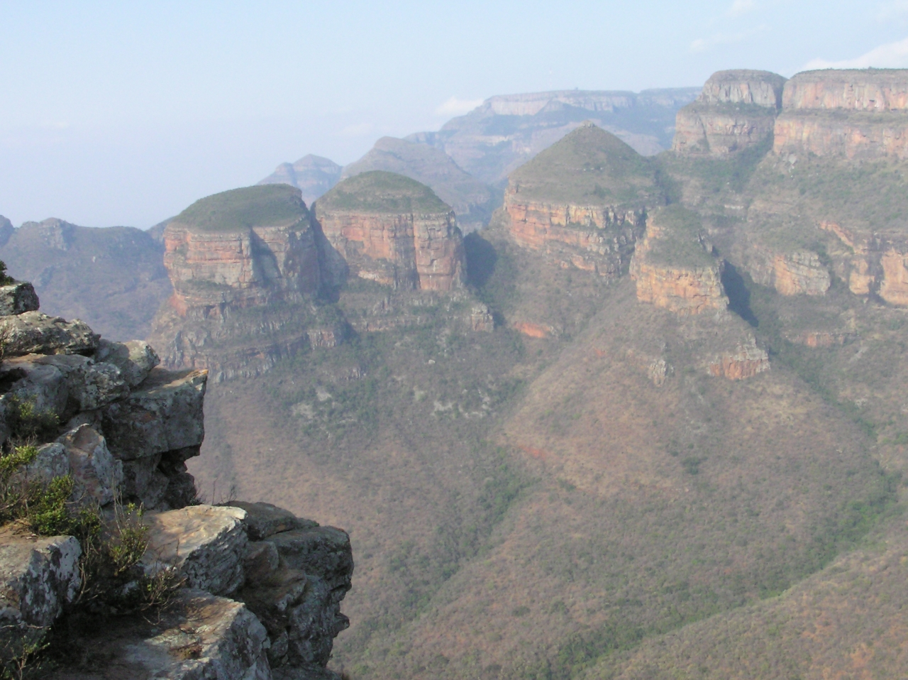 Eastward view of Blyde River Canyon, including Three Rondavels